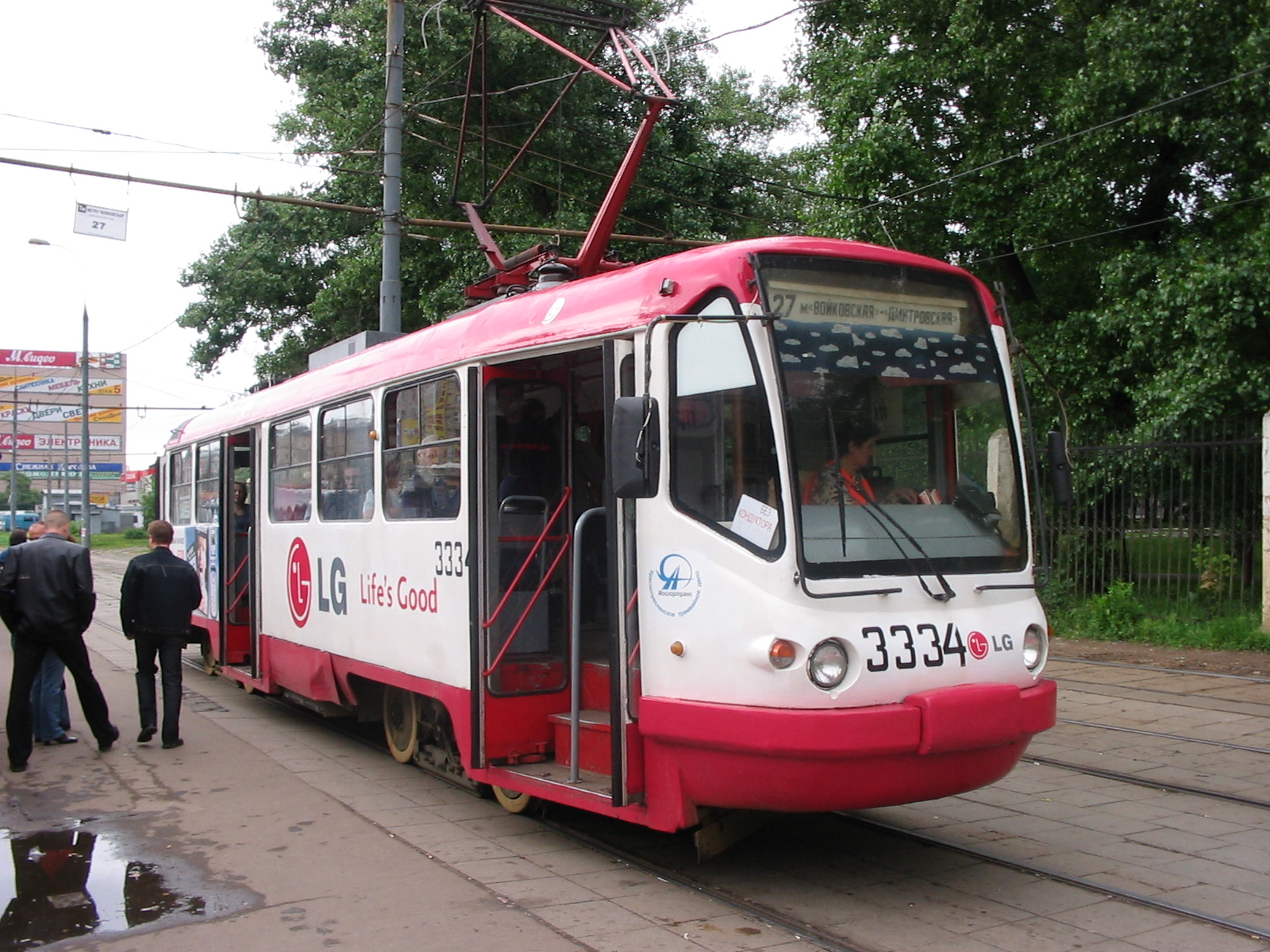 Tram #3334 near Voykovskaya Metro station in Moscow.